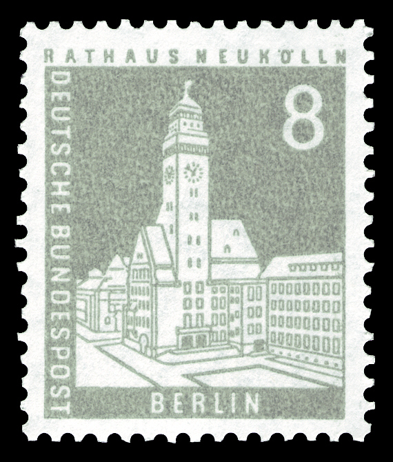 Definitive stamp series Pictures of Berlin (II)